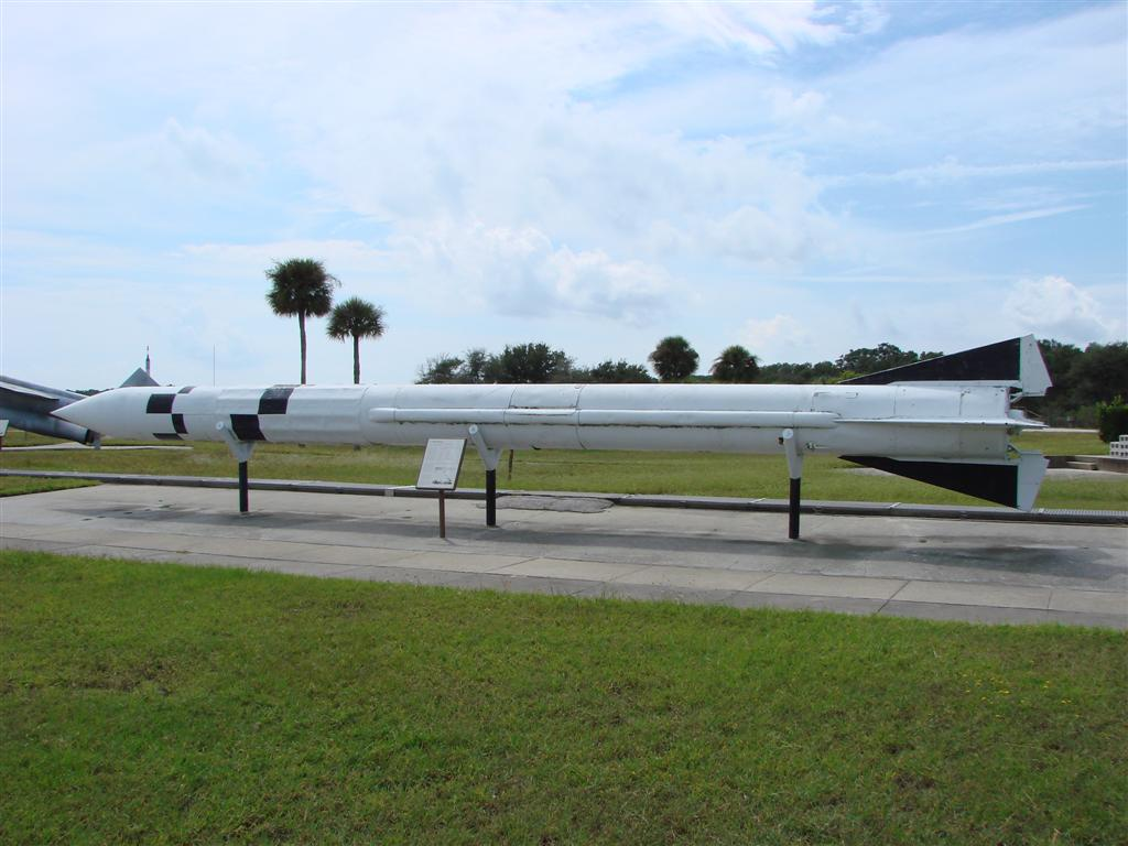 Corporal Field Artillery Missile. Air Force Space and Missile Museum, Cape Canaveral Air Force Station, Florida.